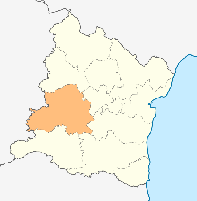 Map of Provadia municipality, Varna Province